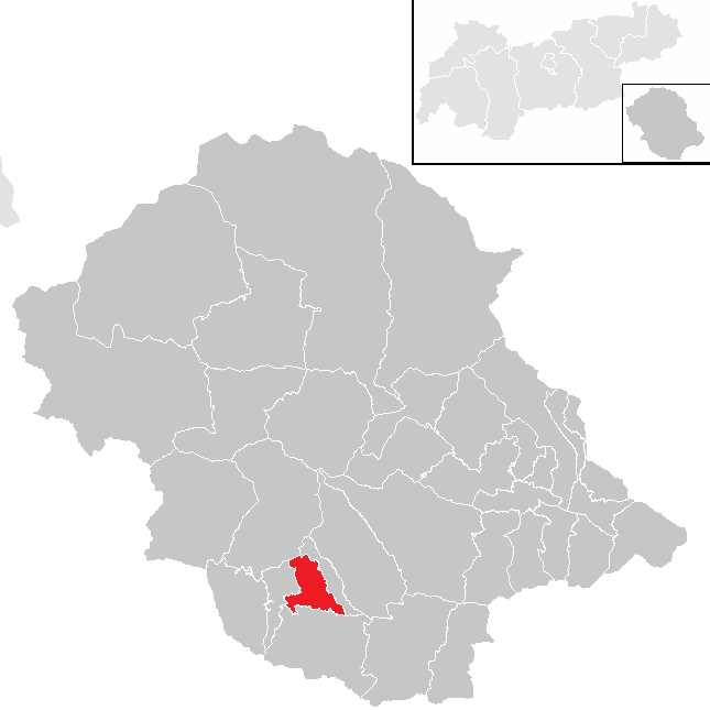 District Lienz